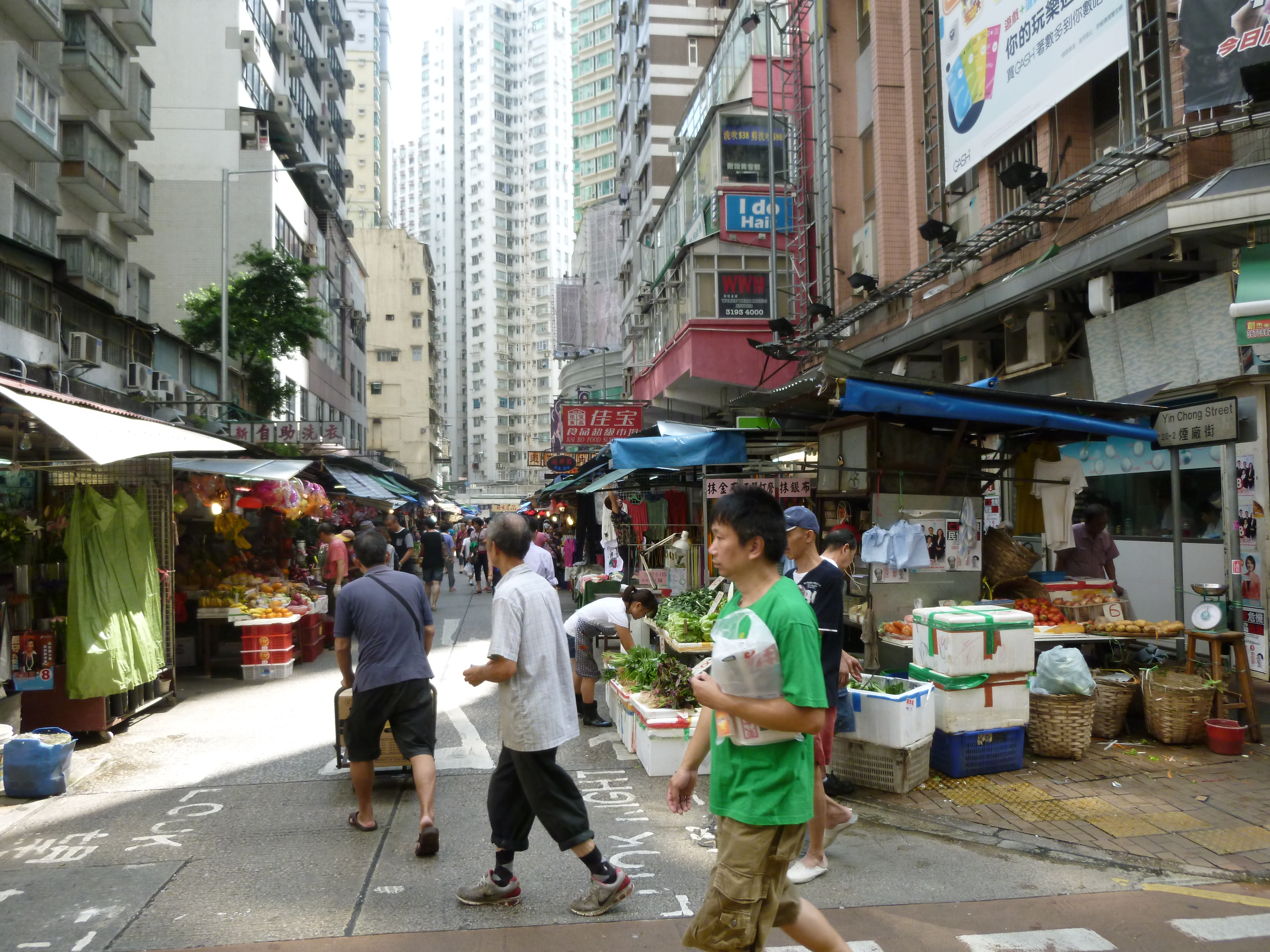 Yin Chong Street (Mongkok, Kowloon, Hong Kong) 中文（香港）: 煙廠街 (香港九龍旺角)